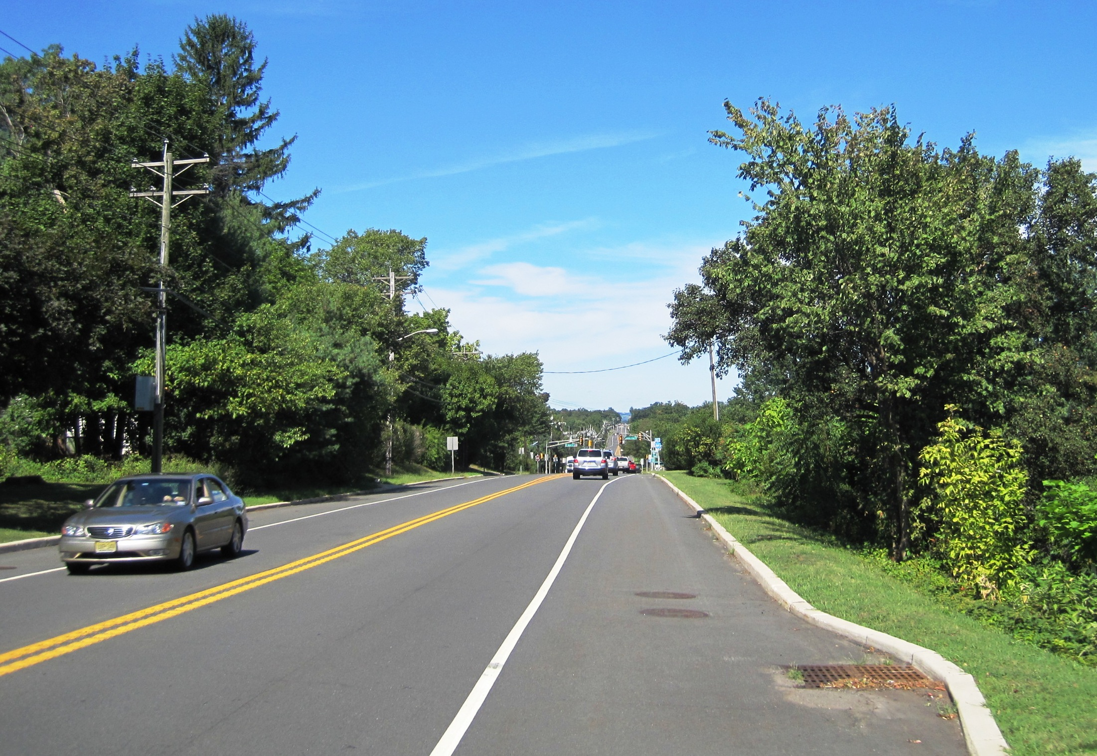 Photo of westbound New Jersey Route 28 on the border of Bridgewater Township and Raritan, New Jersey approaching County Route 567.